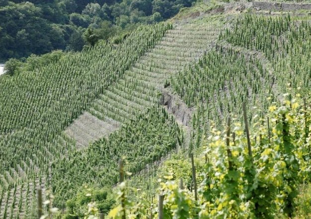 The vineyard Trarbacher Hühnerberg.